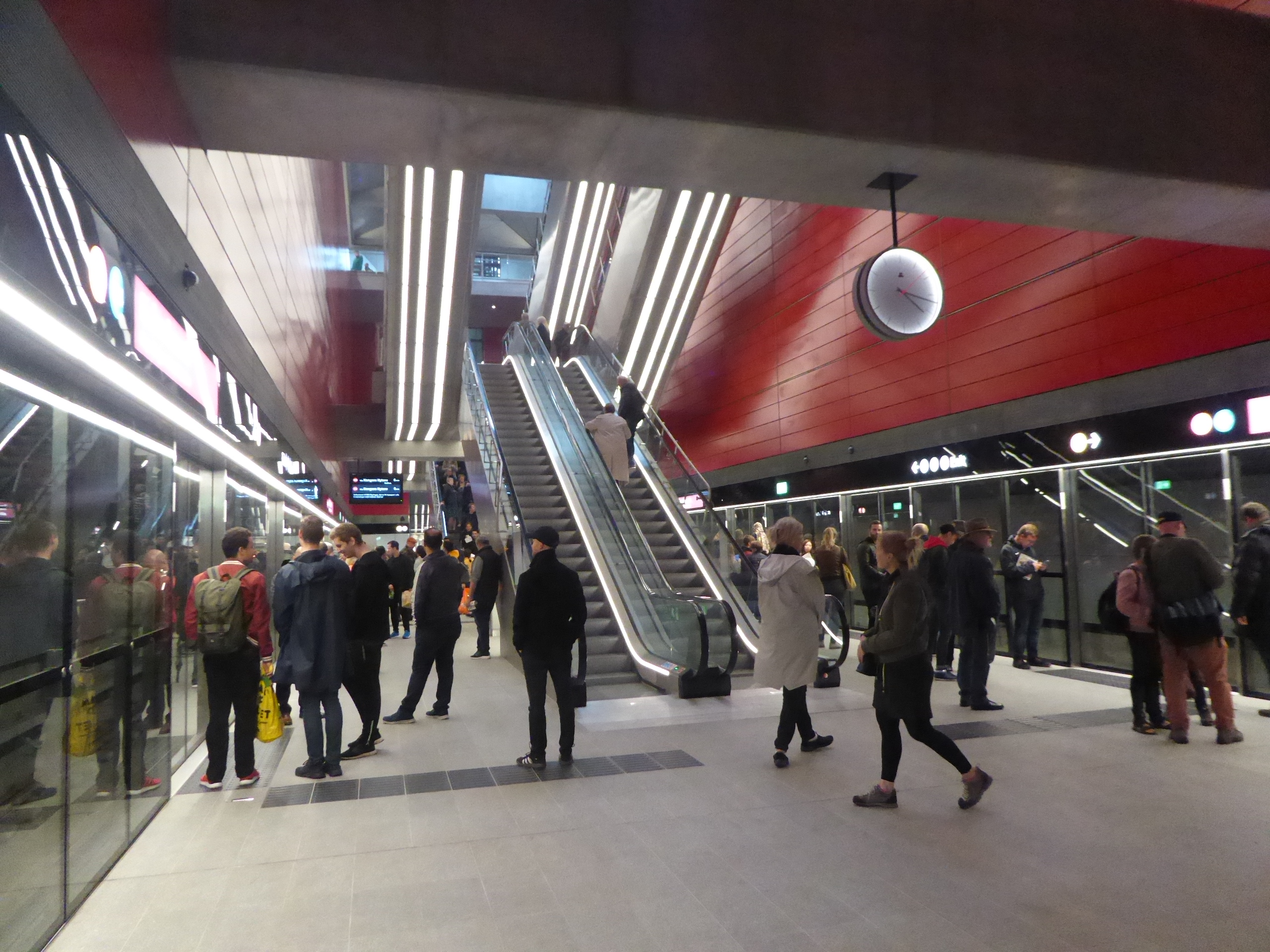 The metro station of Københavns Hovedbanegård (Copenhagen Central Station) on the opening day.